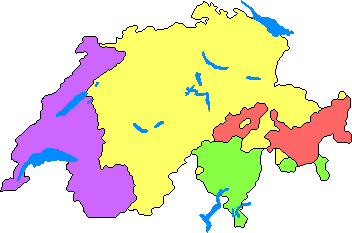 }A map showing the distribution of the Swiss languages; German (64%; yellow), French (19%; purple), Italian (8%; green), Romansh (less than 1%; red) The blue areas represent lakes.